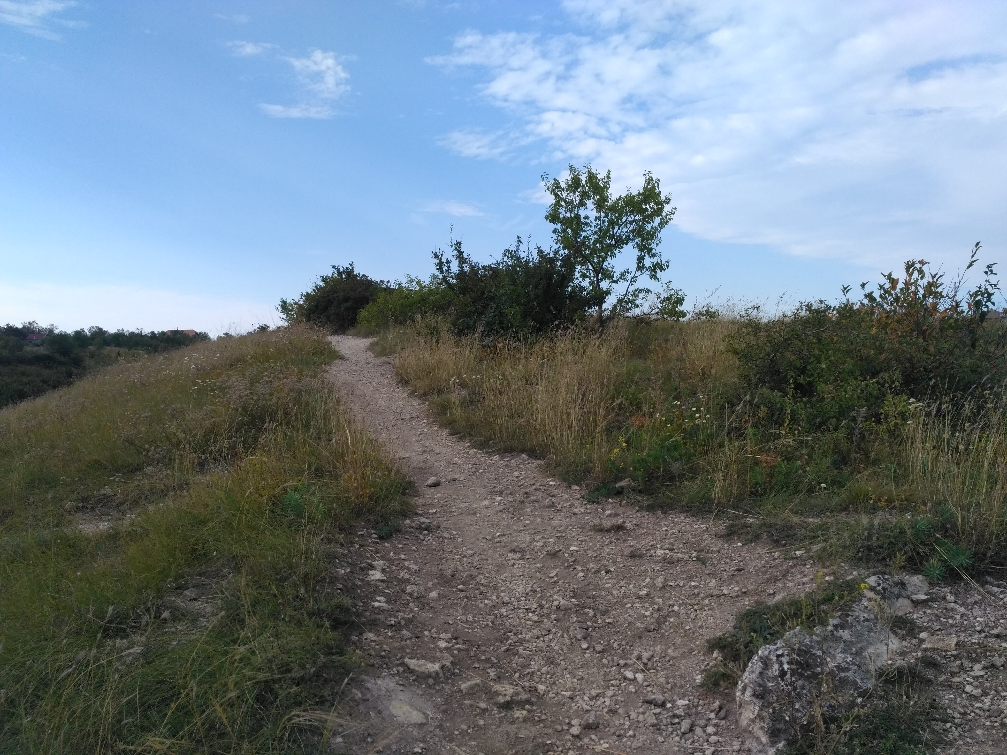 Dry grass section of Fundoklia Valley.